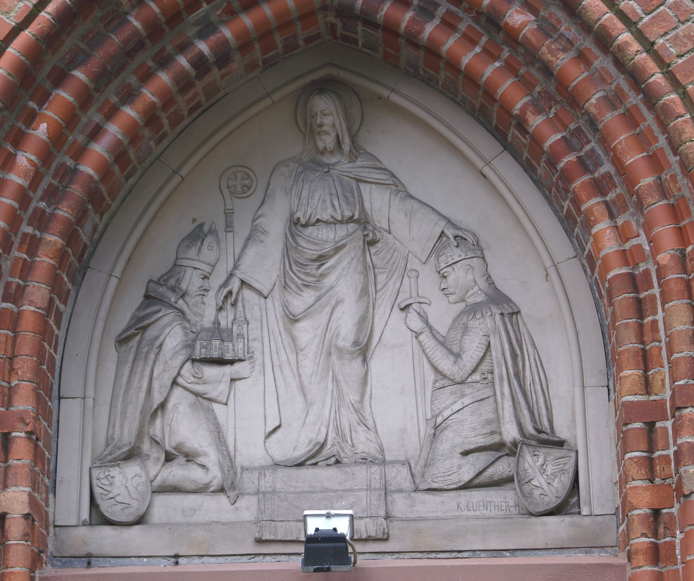 Wartislaw-Memorial-Church in Stolpe near River Peene in Mecklenburg-Vorpommern